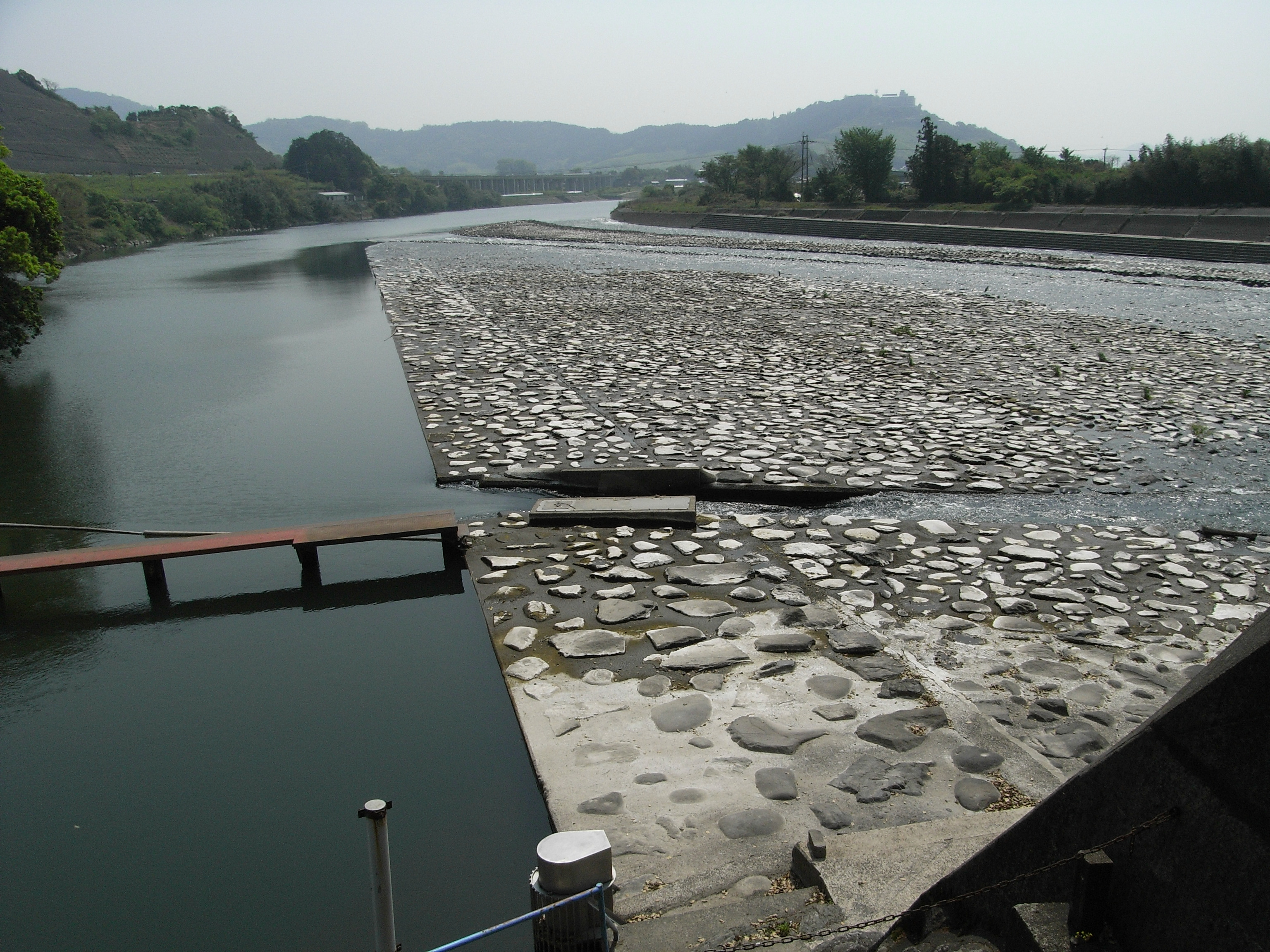 Yamadazeki weir(Chikogo river/Fukuoka Pref./Japan)